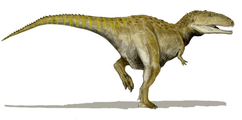 Mapusaurus roseae, a carcharodontosaurid from the Late Cretaceous of Argentina, pencil drawing